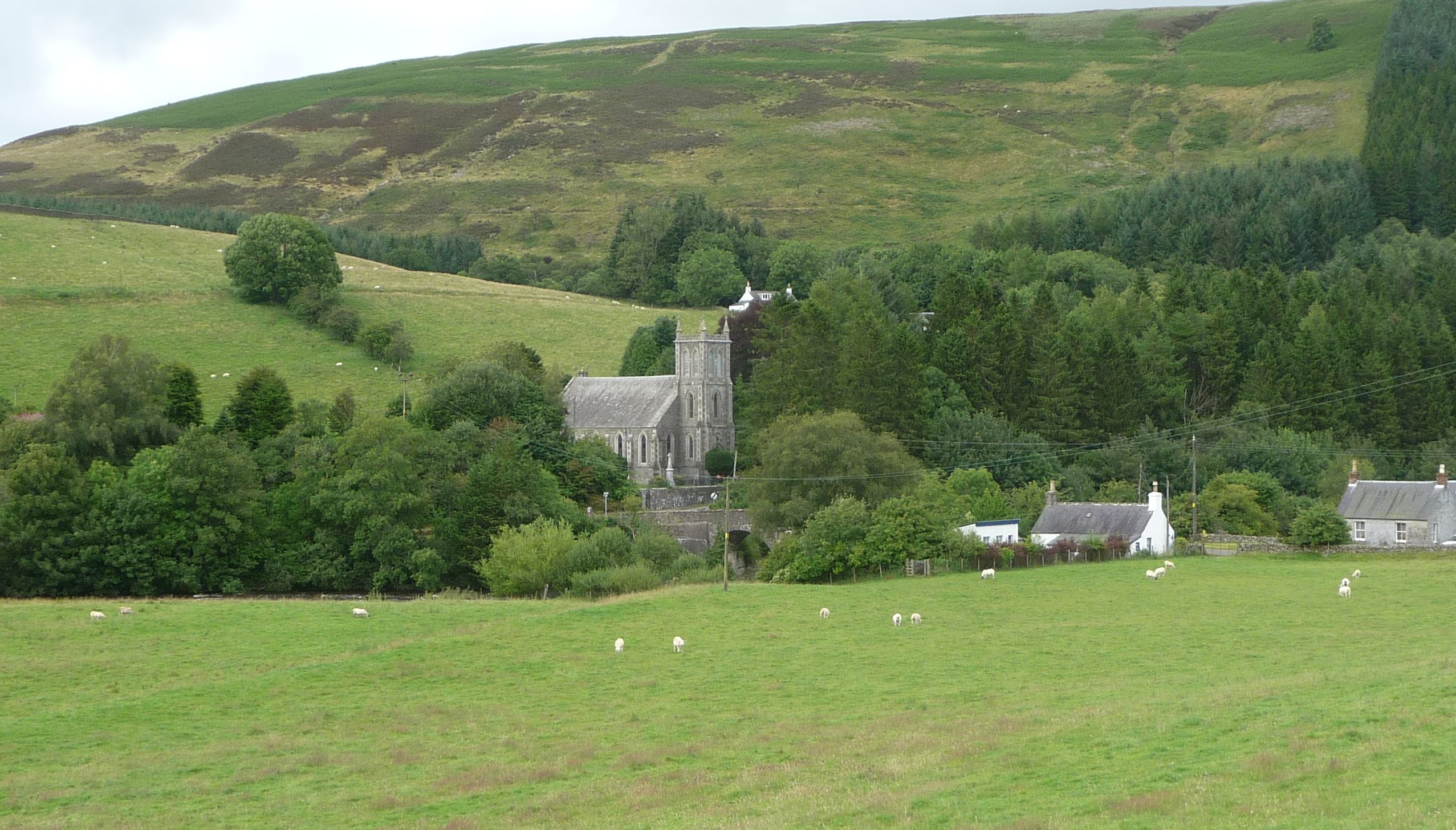 Bentpath in Scotland